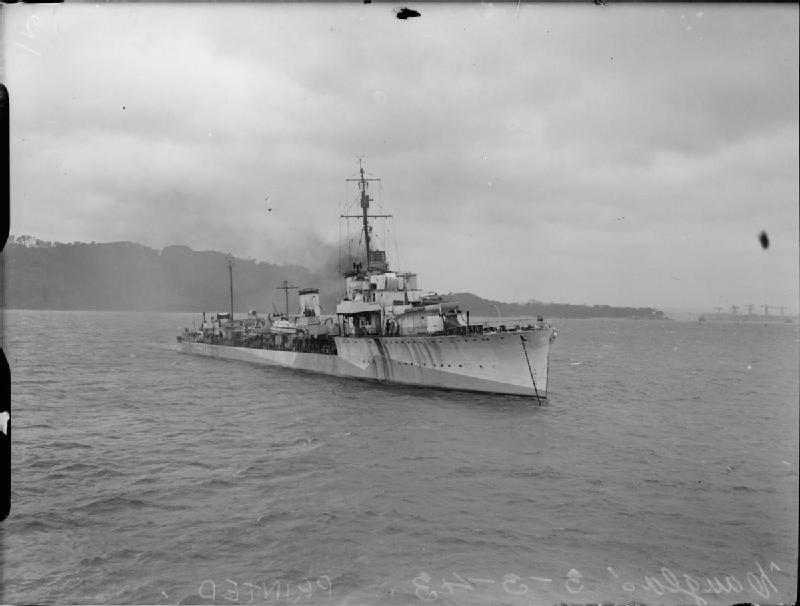 HMS Douglas At anchor in Plymouth Sound.